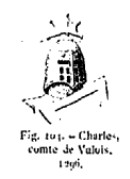 Charles of Valois